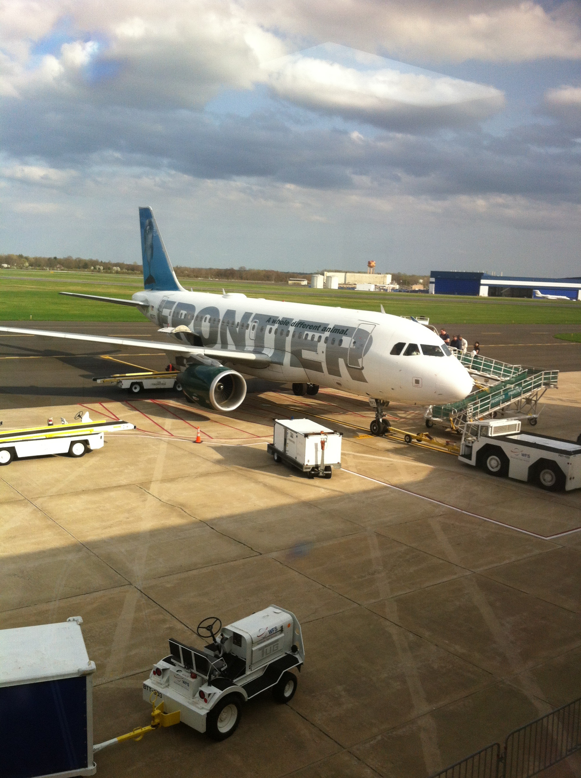 Frontier A319 Flip the Dolphin at the Gate 1 parking space at TTN